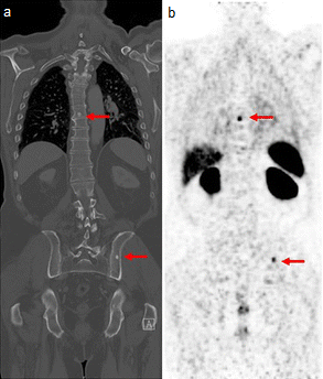 68Ga-PSMA ligand PET/CT in a 78-year old patient with primary PC (Gleason score 7, iPSA 34.3 ng/ml). The CT examination with bone window setting (a) shows osteoblastic bone lesions in the left iliac bone as well as in the thoracic vertebrae with corresponding PSMA-ligand uptake in PET imaging (b). Note the physiological high uptake in the kidneys as well as moderate uptake in the liver and spleen (b)